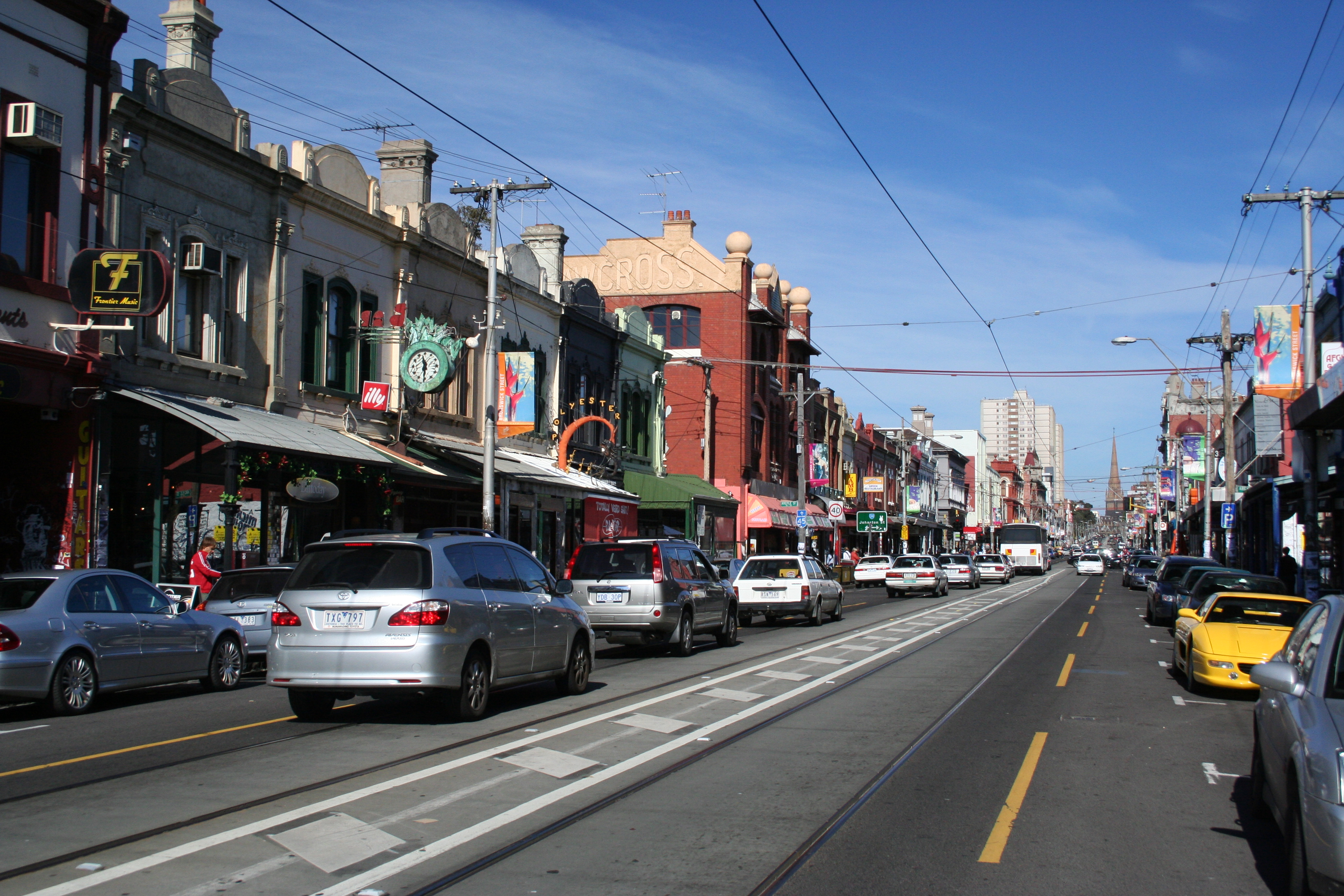 Brunswick Street, Victoria, Australia looking south east towards the city